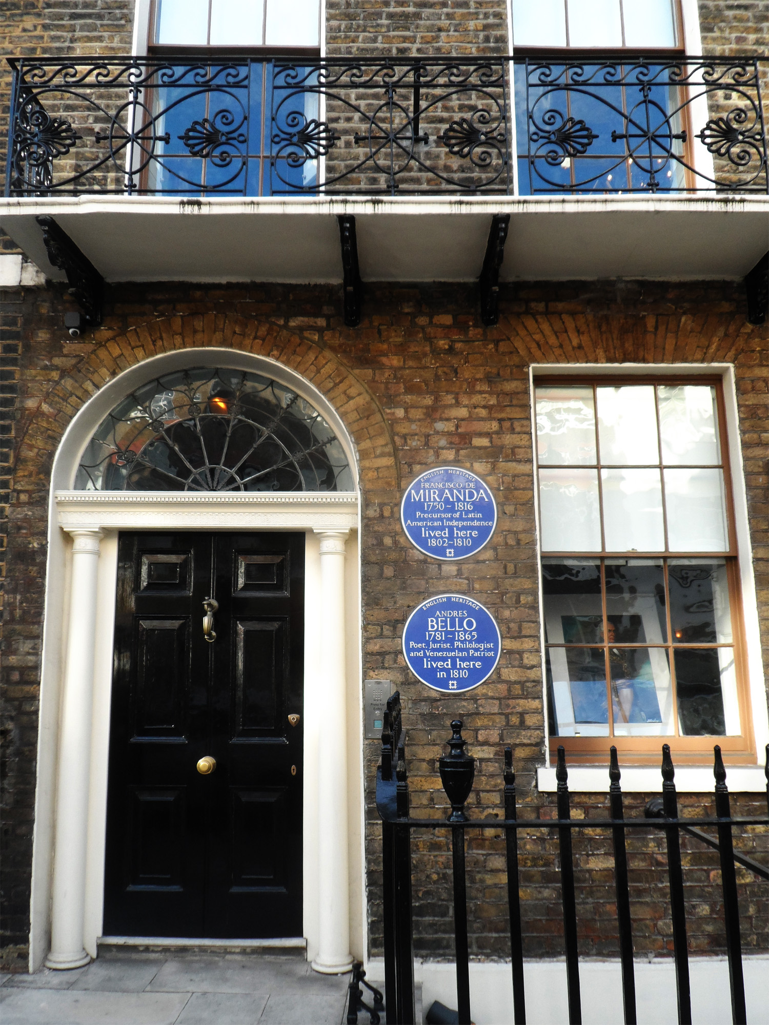 ANDRES BELLO 1781-1865 Poet Jurist Philologist and Venezuelan Patriot lived here in 1810 FRANCISCO DE MIRANDA 1750-1816 Precursor of Latin American Independence lived here 1802-1810